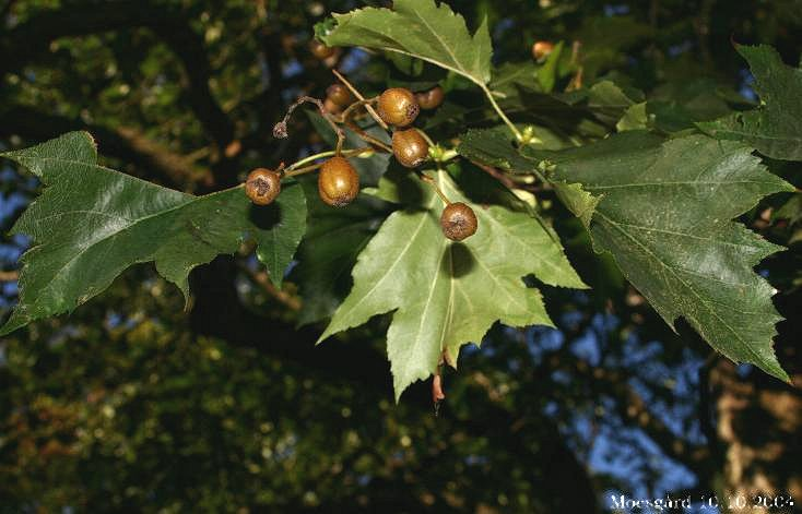 Sorbus torminalis, a rare specimen in Denmark.